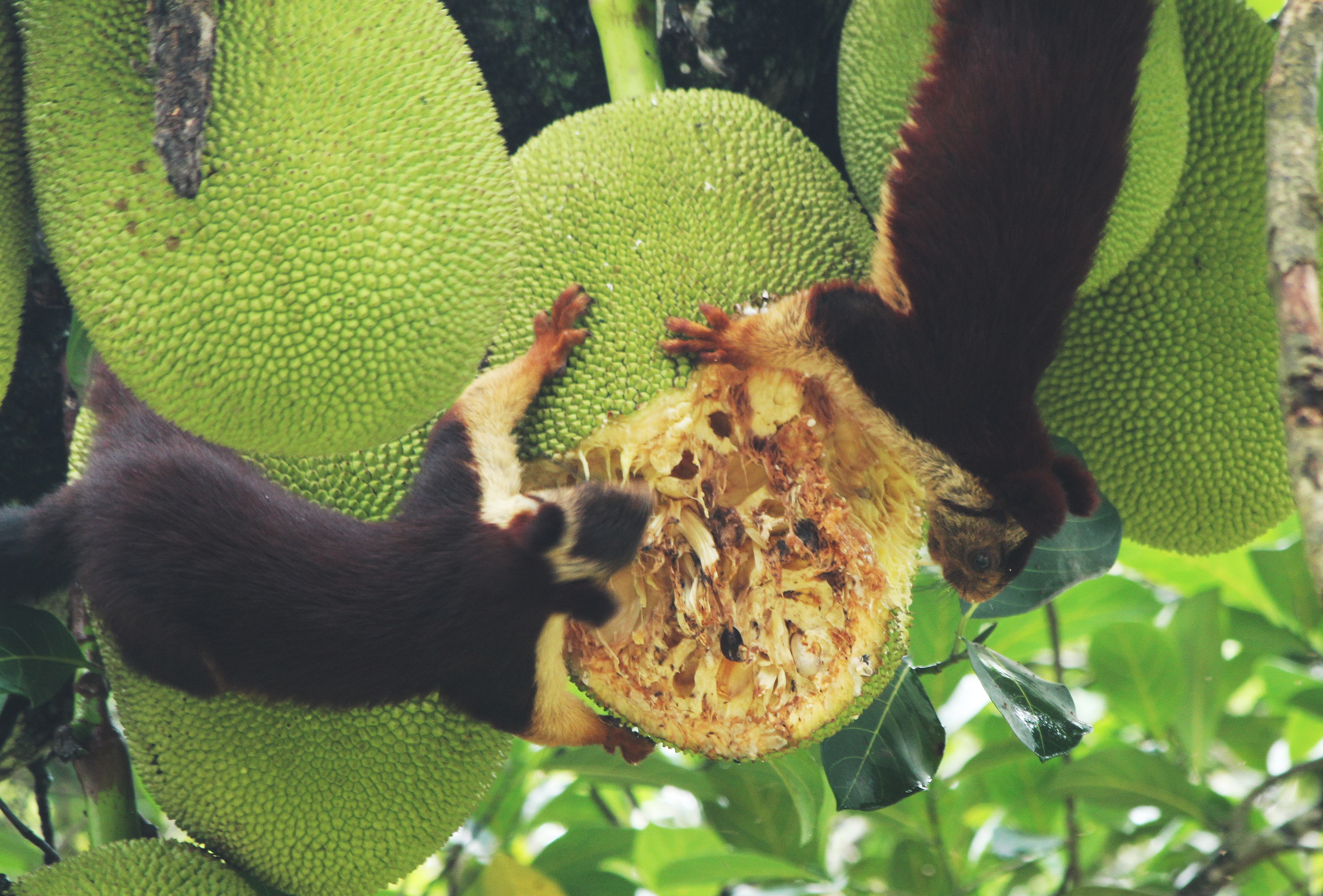 shot at nagarhole